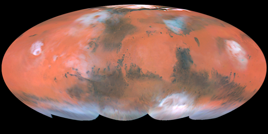 The four hemispheric views shown above have been combined into a full-color global map (called a Mollweide projection), showing the regions of Mars imaged by the Hubble telescope during the planet's closest approach to Earth.